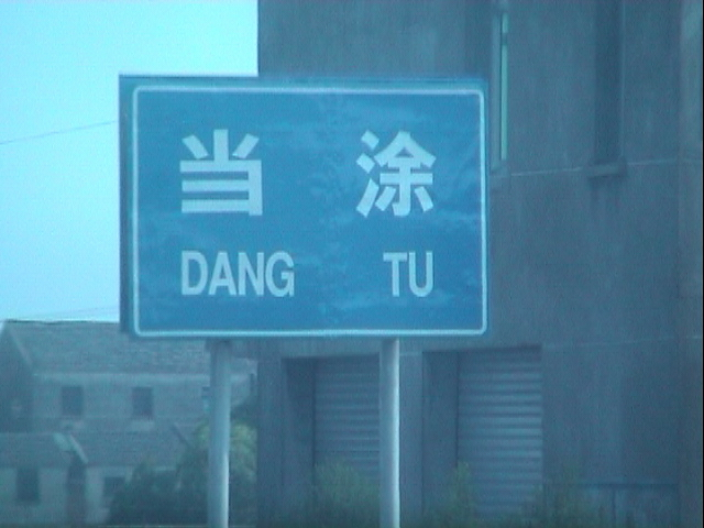 This is a roadsign at the main road just before driving into Dangtu city in China.